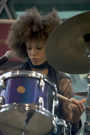 Cindy Blackman Federation Square, Melbourne, May 2008 See the full gallery - [1]